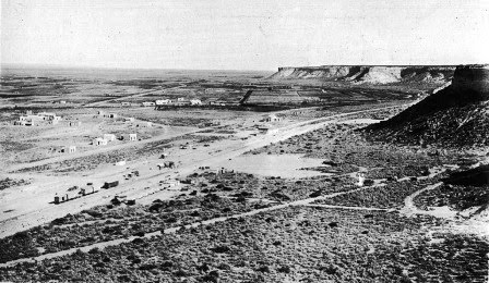 Panoramic view of Colonia Regina during the first stage of its development.